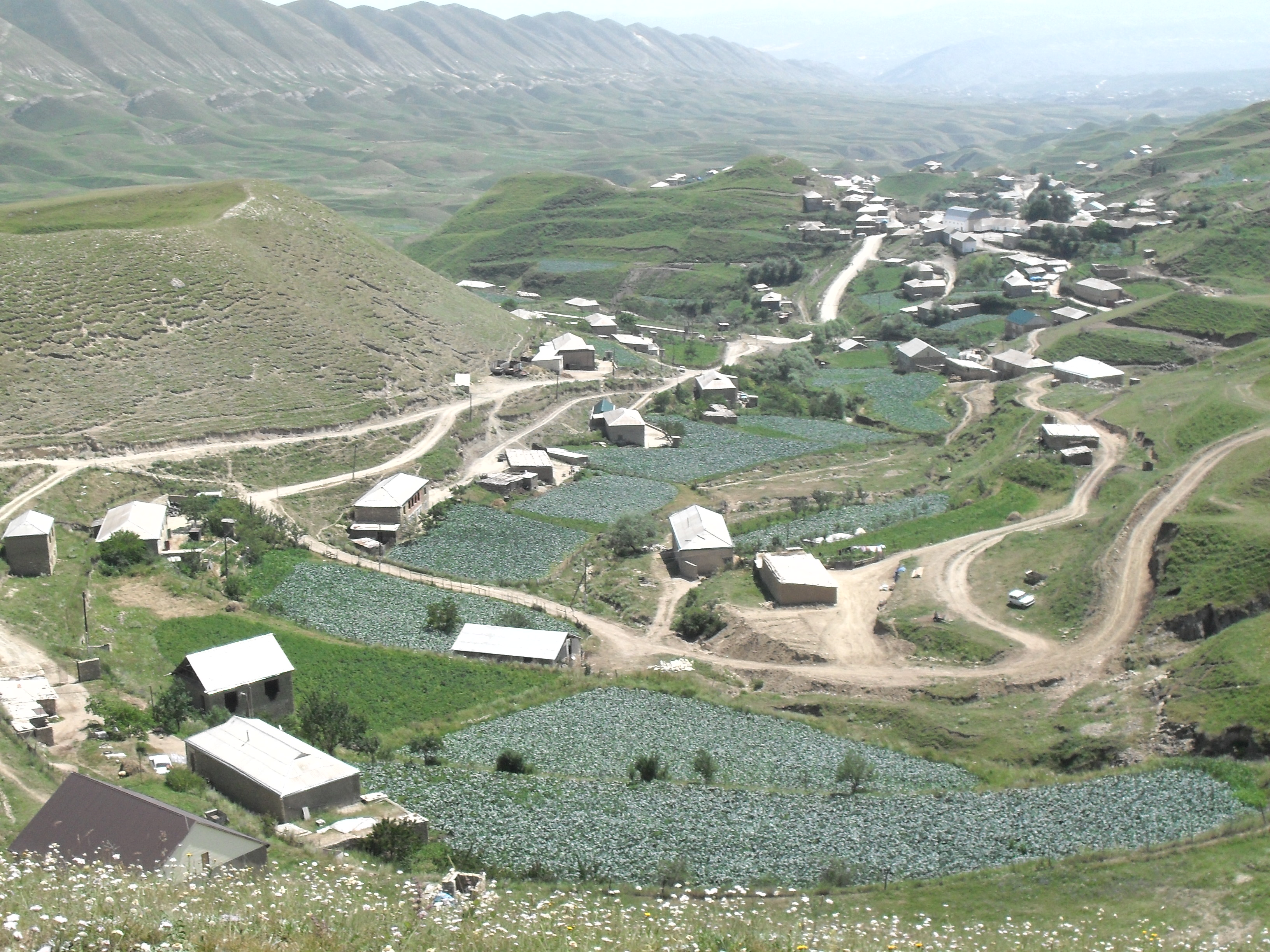 Village of Orada Chugli. A view from the west. The village is located on the north-west of Levashinsky District in the Republic of Daghestan.